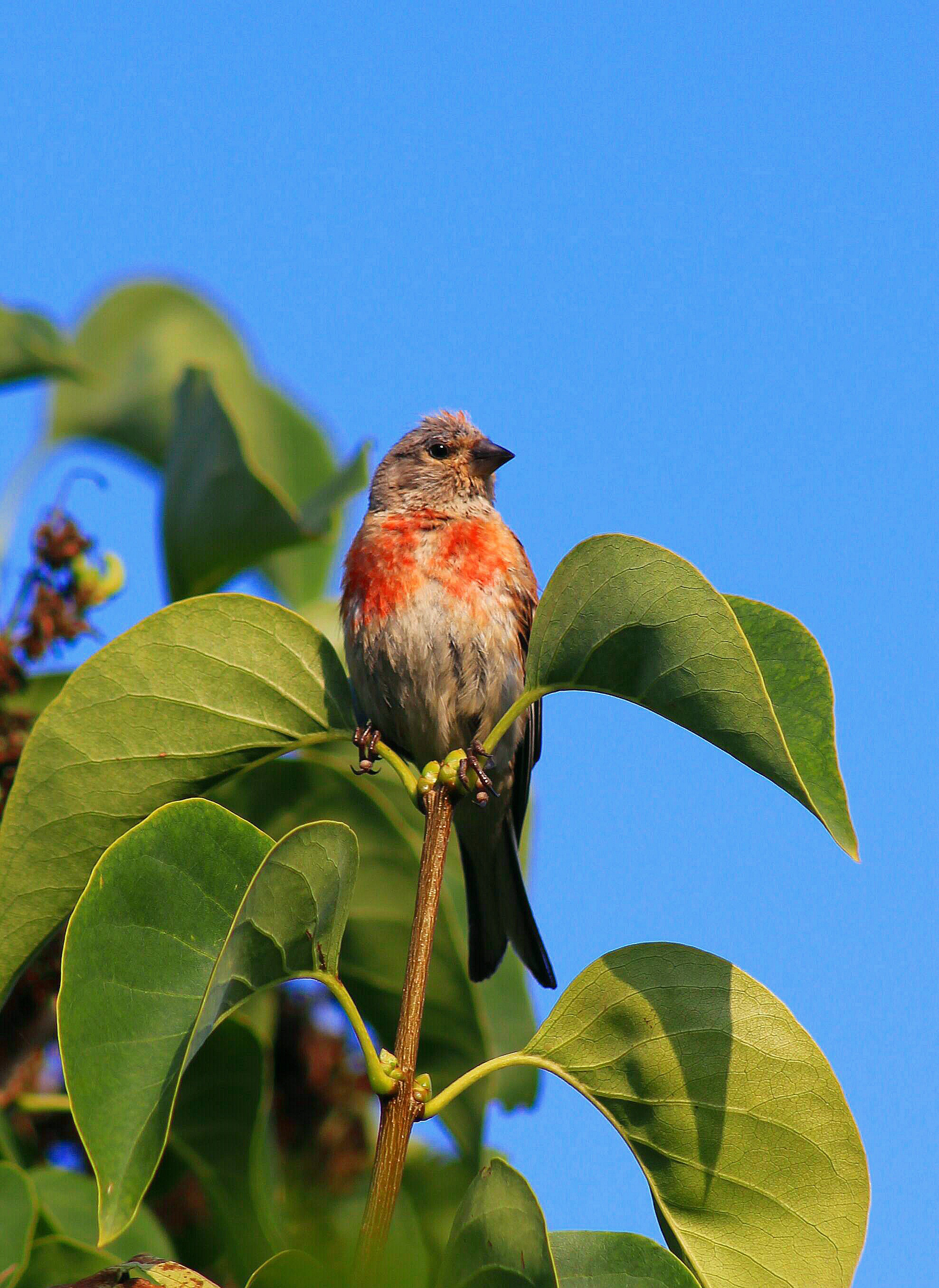 A male individual of the species Carduelis cannabina sits on a branch in the evening.